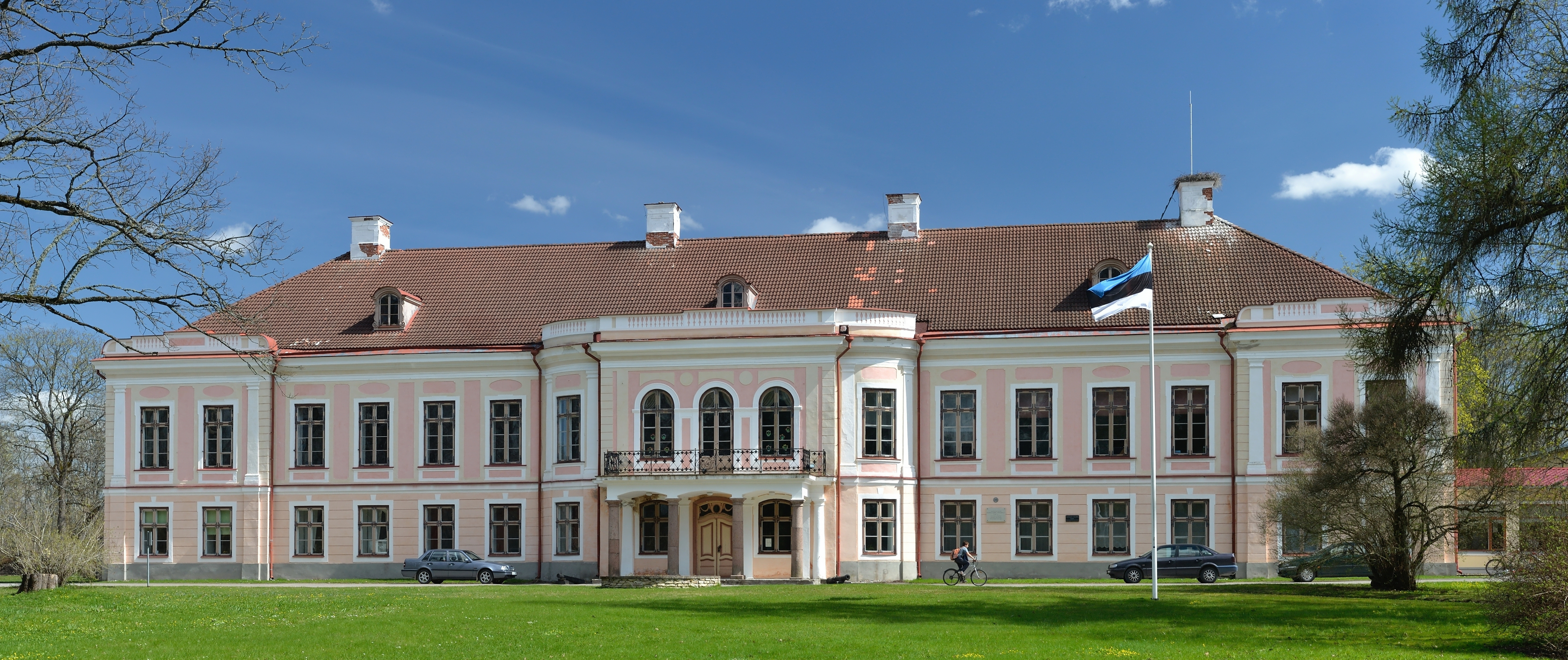 Roosna-Alliku manor main building